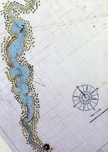 Swan River Chart The first detailed map of the Swan River was drawn by François-Antoine Boniface Heirisson of the Naturaliste from direct observation after his journey by longboat along the Swan River from 17-22 June 1801. Heirisson has included on the chart soundings along the entire length of his journey, and comments on the singular topography of the mouth of the river (the bar) referring to features seen along its course.